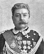 Portrait of General Driquet, first chief of the Italian Military Intelligence